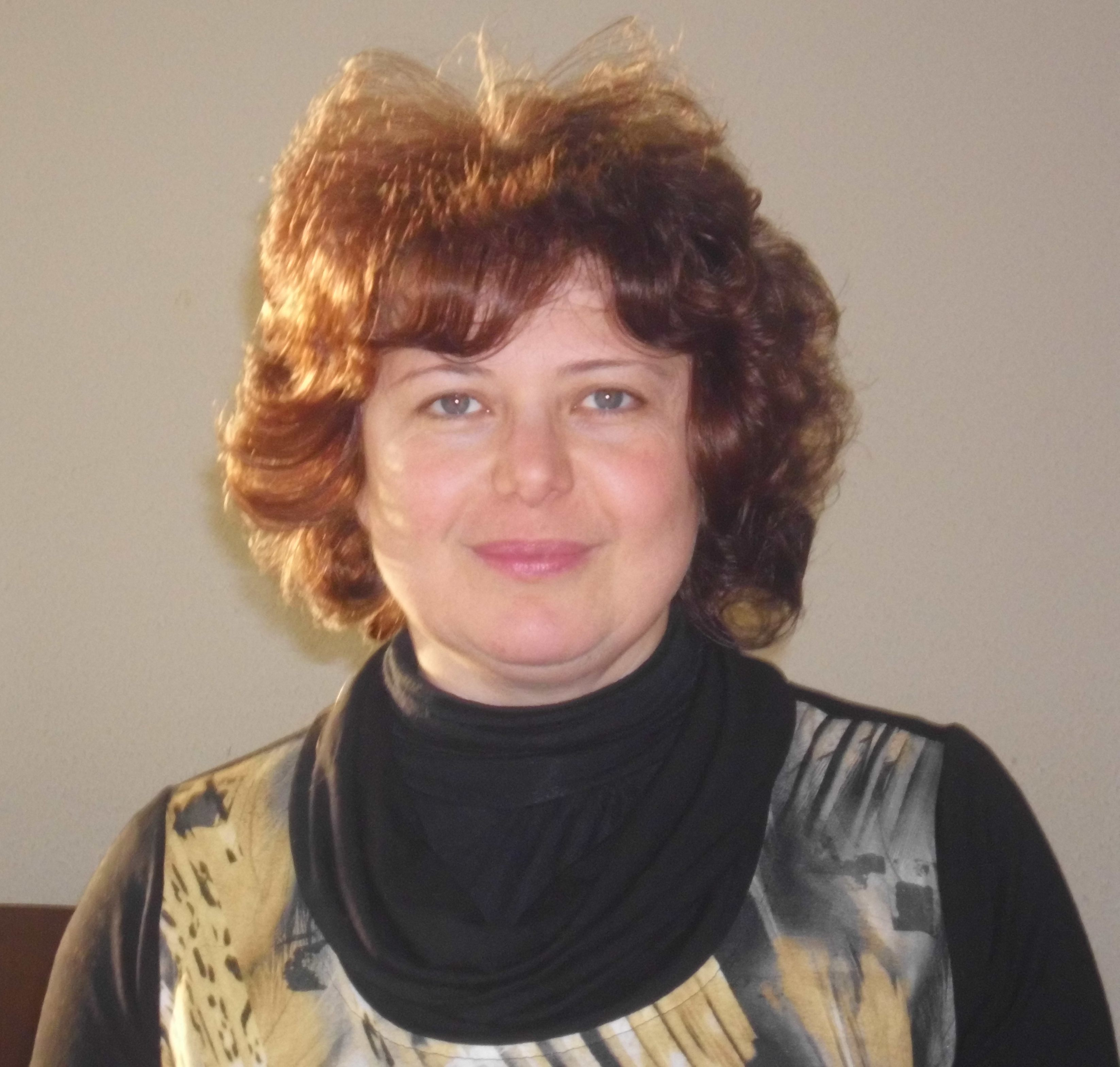 WGM Tamara Klink on April 9, 2015 in Göttingen (Germany)